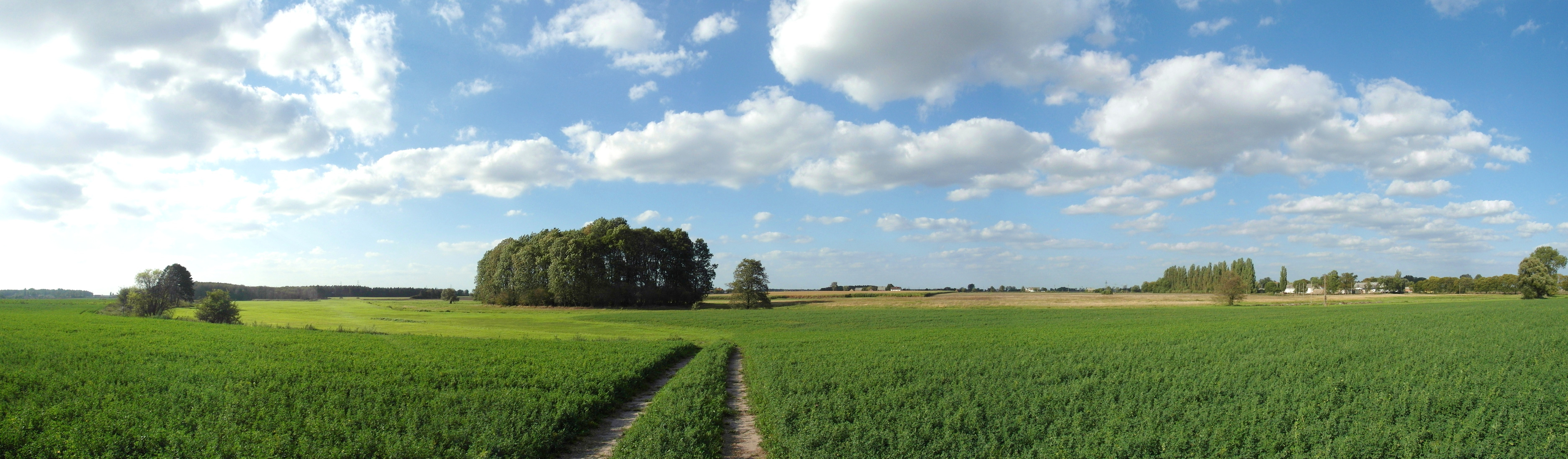 Wielka river valley landscape in Murzynowo Kościelne